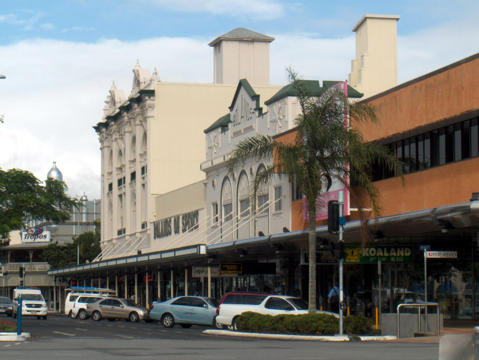 Cairns, Queensland, Australia